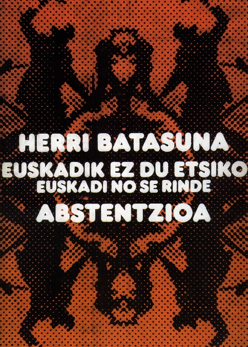 Flyer against voting in the Basque Autonomous Community statute referendum.